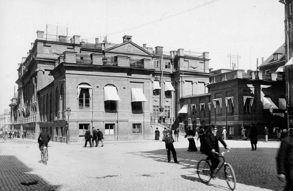 The Bonde Palace at Riddarhuset Square in the Old Town. Format: Albumen print